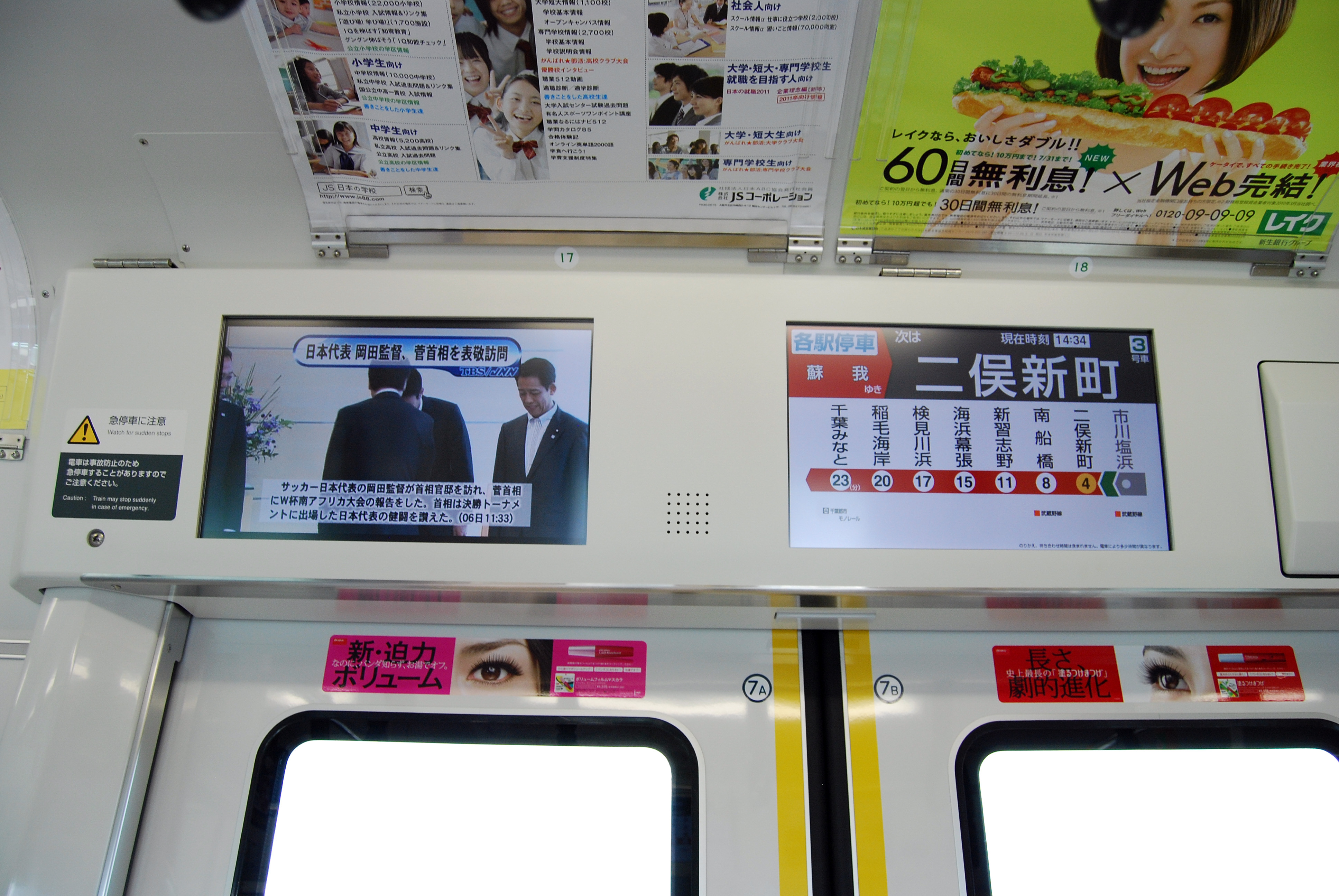 LCD passenger information display screens inside a JR East E233-5000 series Keiyo Line EMU train